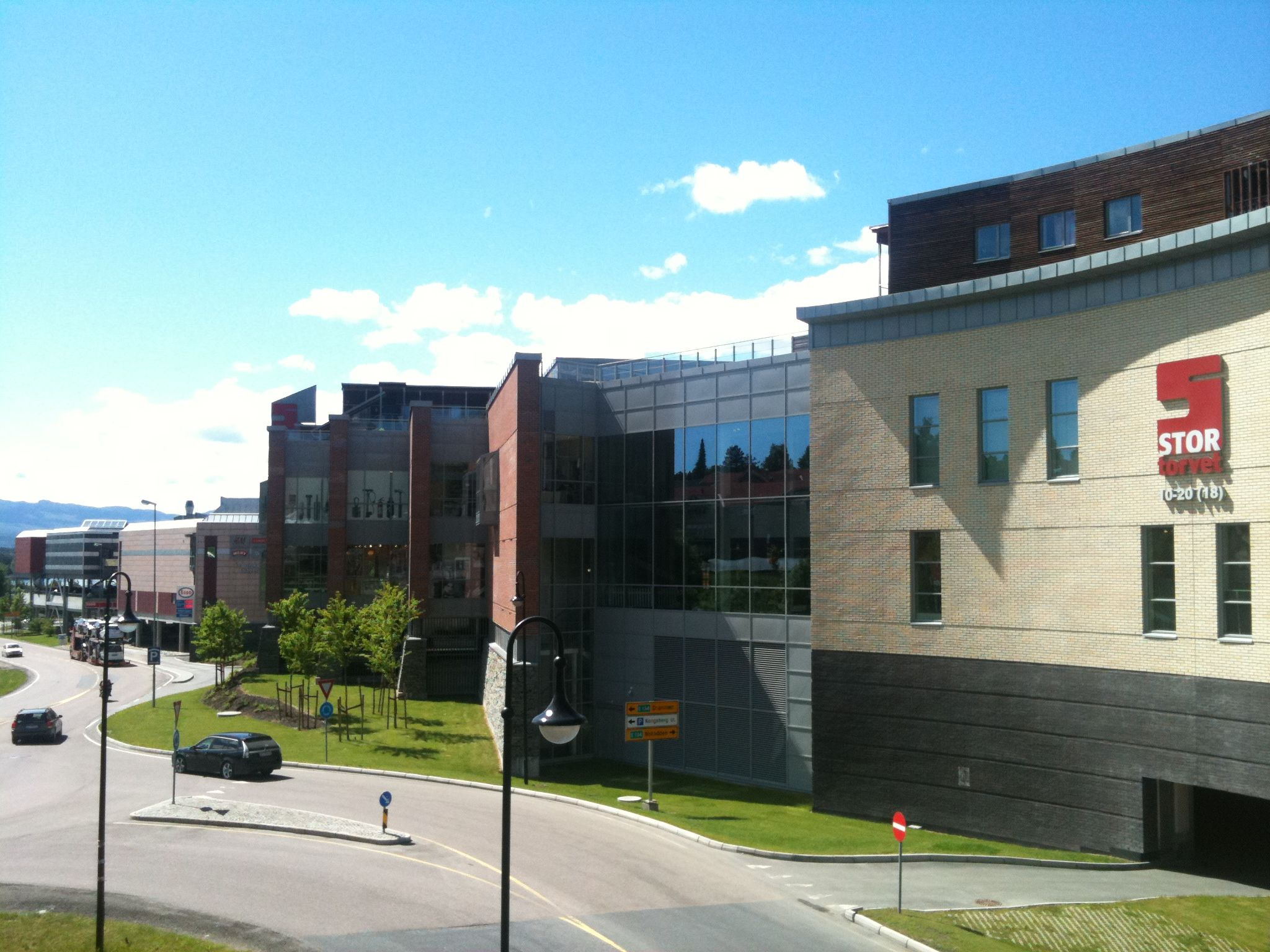 Stortorvet shopping mall in Kongsberg Norsk (bokmål): Stortorvet senter i Kongsberg